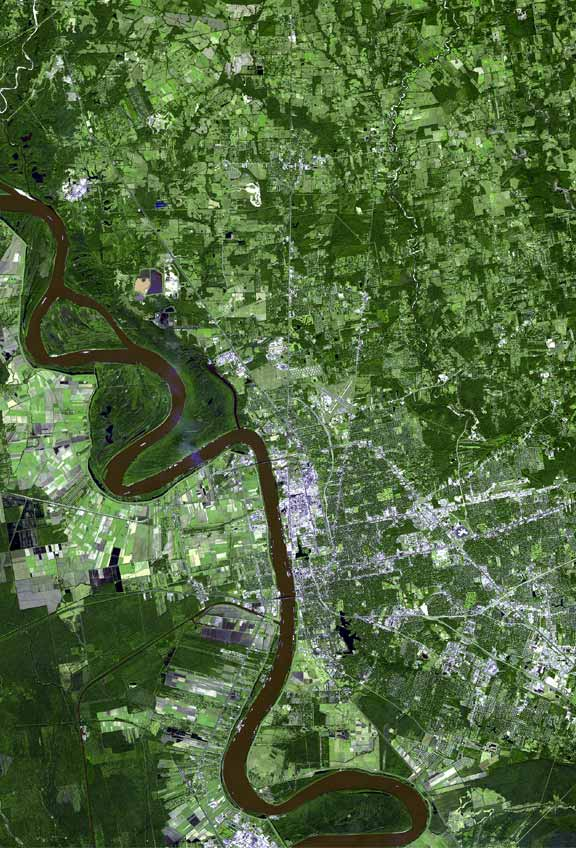 The raw satellite imagery shown in these images was obtain from NASA and/or the US Geological Survey. Post-processing and production by